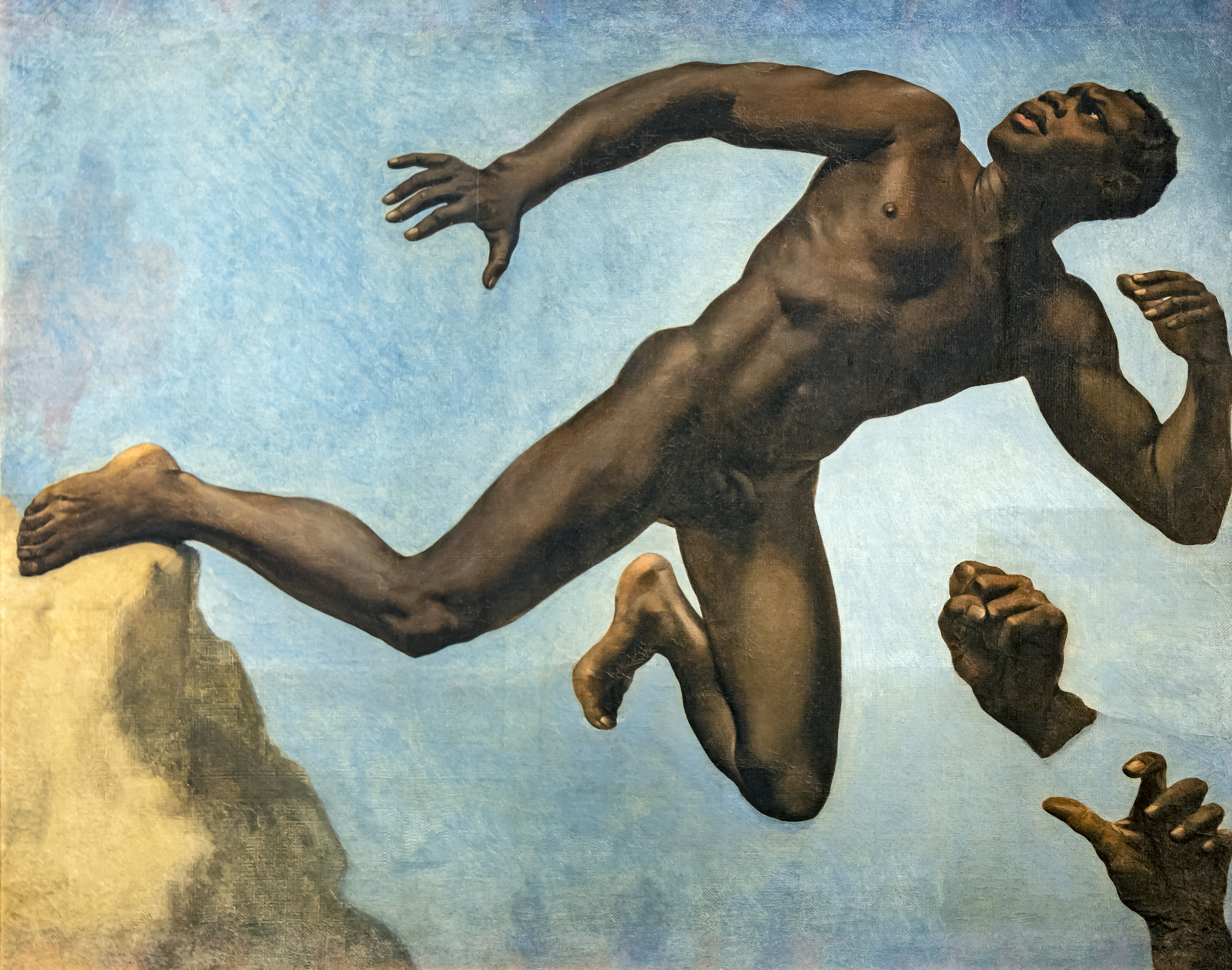 Anatomical study at the request of Ingres for a table that he will not do, according to the model Joseph.